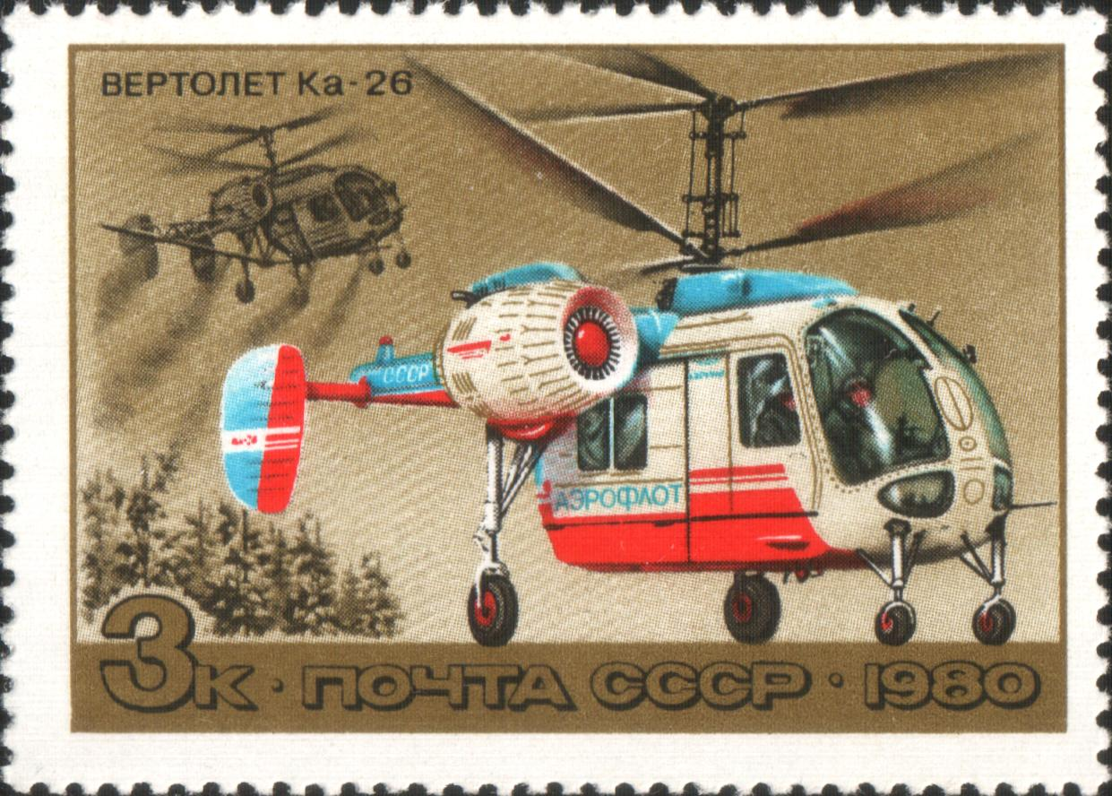 USSR stamp